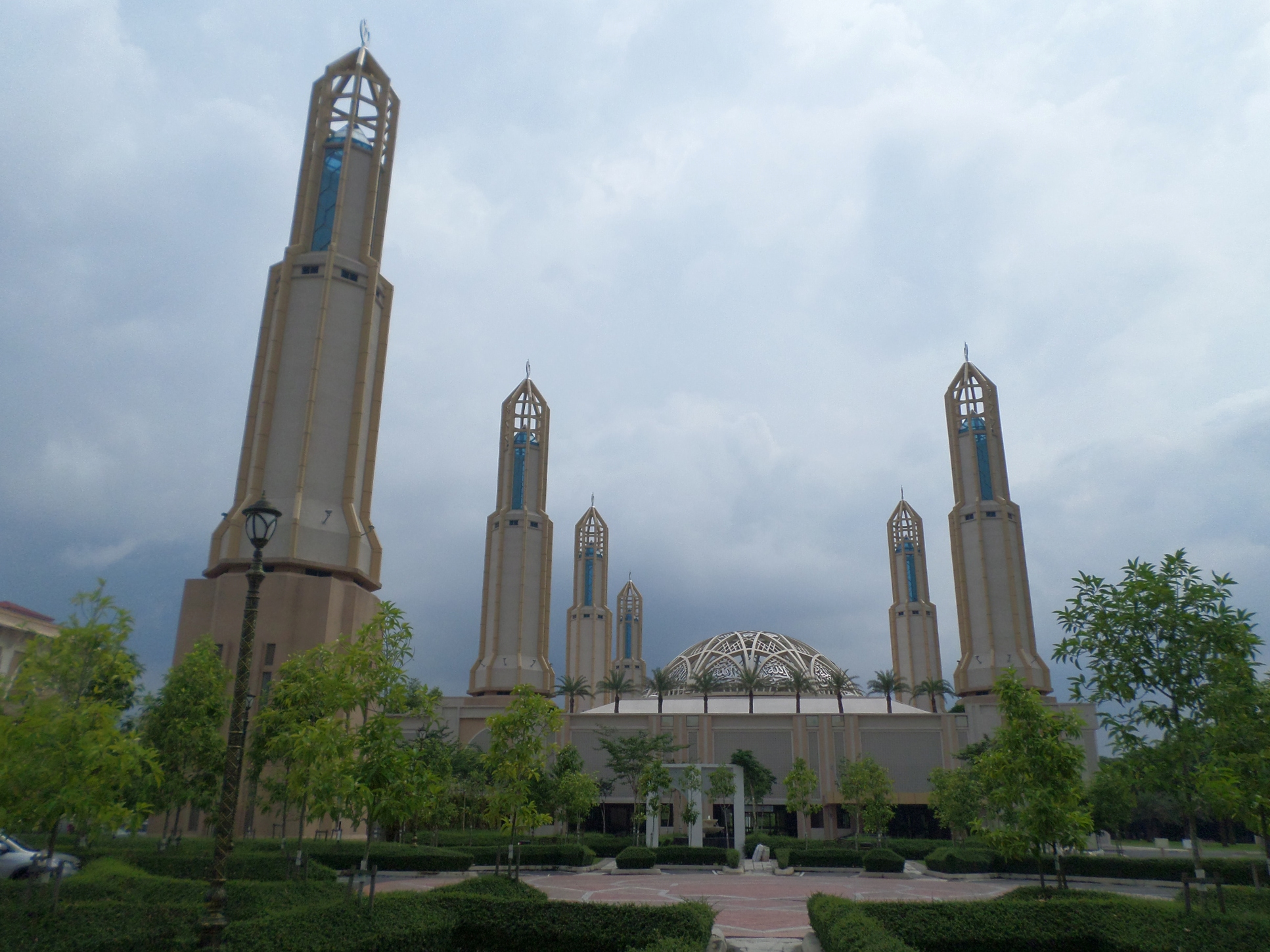 Kota Iskandar Mosque, Kota Iskandar, Nusajaya, Johor Bahru, Johor, Malaysia